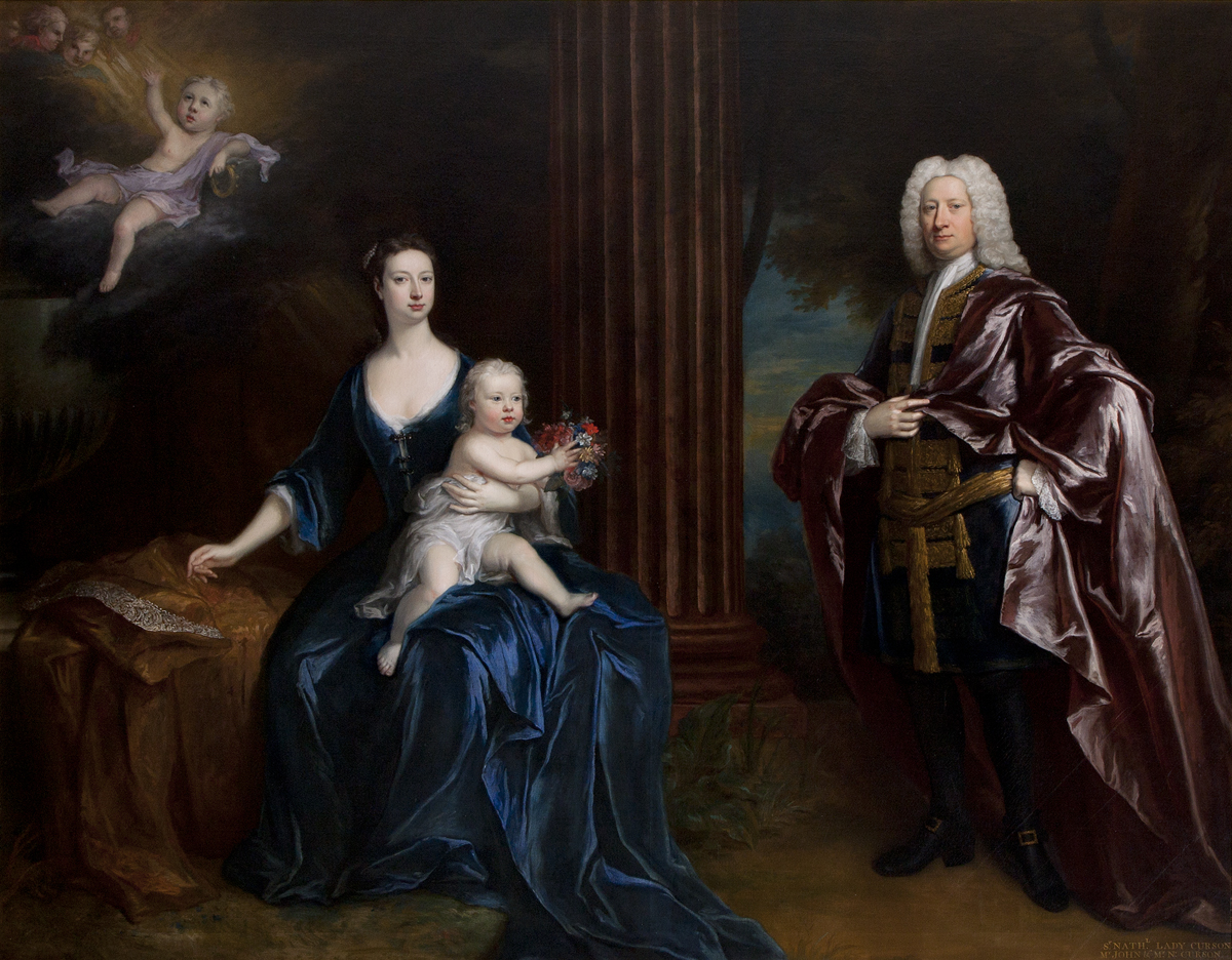 "Sir Nathaniel Curzon (1676–1758), 4th Bt Curzon, with His Wife, Mary Assheton (1695–1776), Lady Curzon, and Their Son Nathaniel (1726–1804), Later Nathaniel Curzon, 1st Baron Scarsdale, with Their Dead Son John Curzon (1719–1720), in the Clouds above."